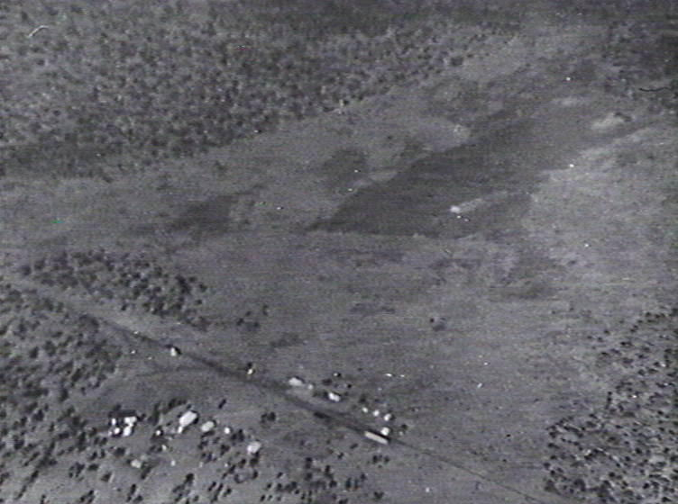 Aerial view of the since 1952 abandoned village of Birdum, Northern Territory, Australia.